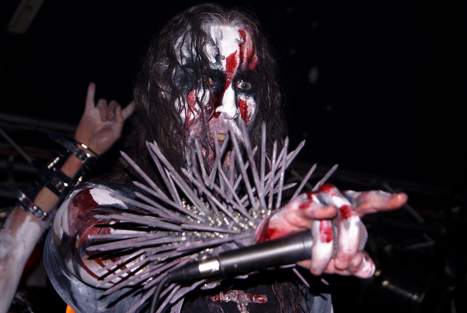 Gaahl, former vocalist of Gorgoroth.